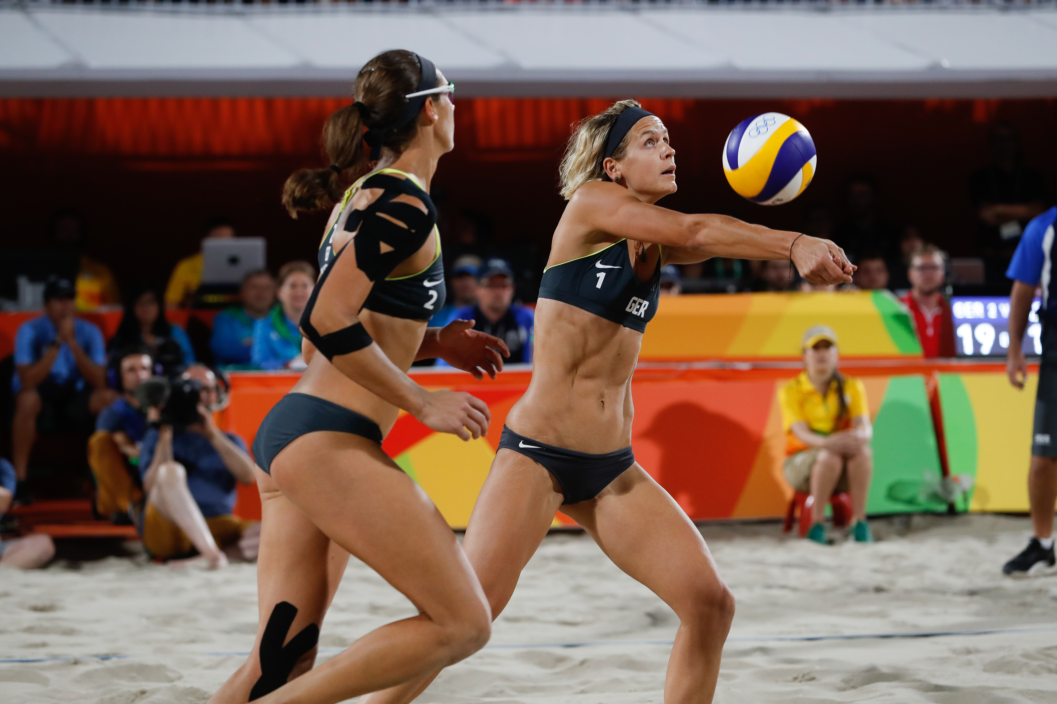 Rio de Janeiro - Dupla de vôlei de praia doBrasil Ágatha e Bárbara disputa final contra alemãs Ludwig e Walkenhorst nos Jogos Olímpicos Rio 2016, em Copacabana ( Fernando Frazão/Agência Brasil)